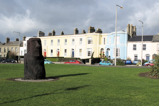 Clontarf Road, Clontarf, Dublin An Moai type sculpture on the coastal road.